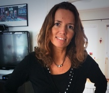 Picture of Camilla Lagerqvist